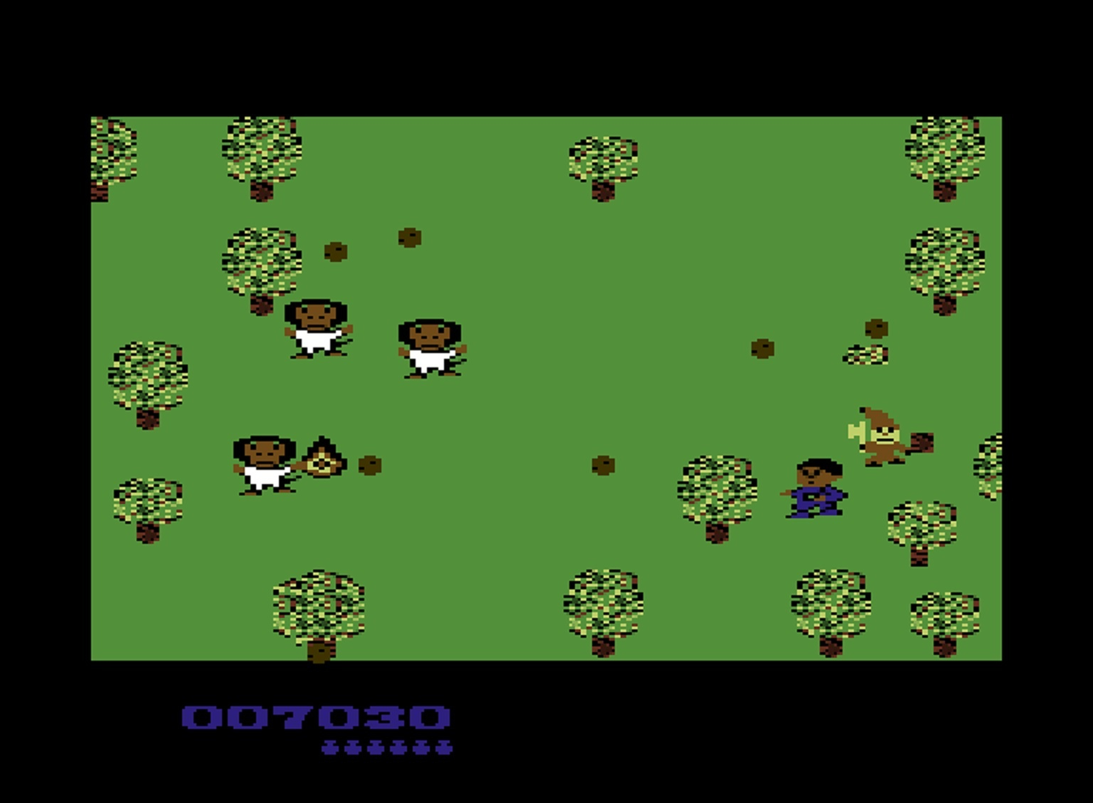 Sprites in a C64 Game (named Spittis Search). I have made the Game, the graphics and so on.